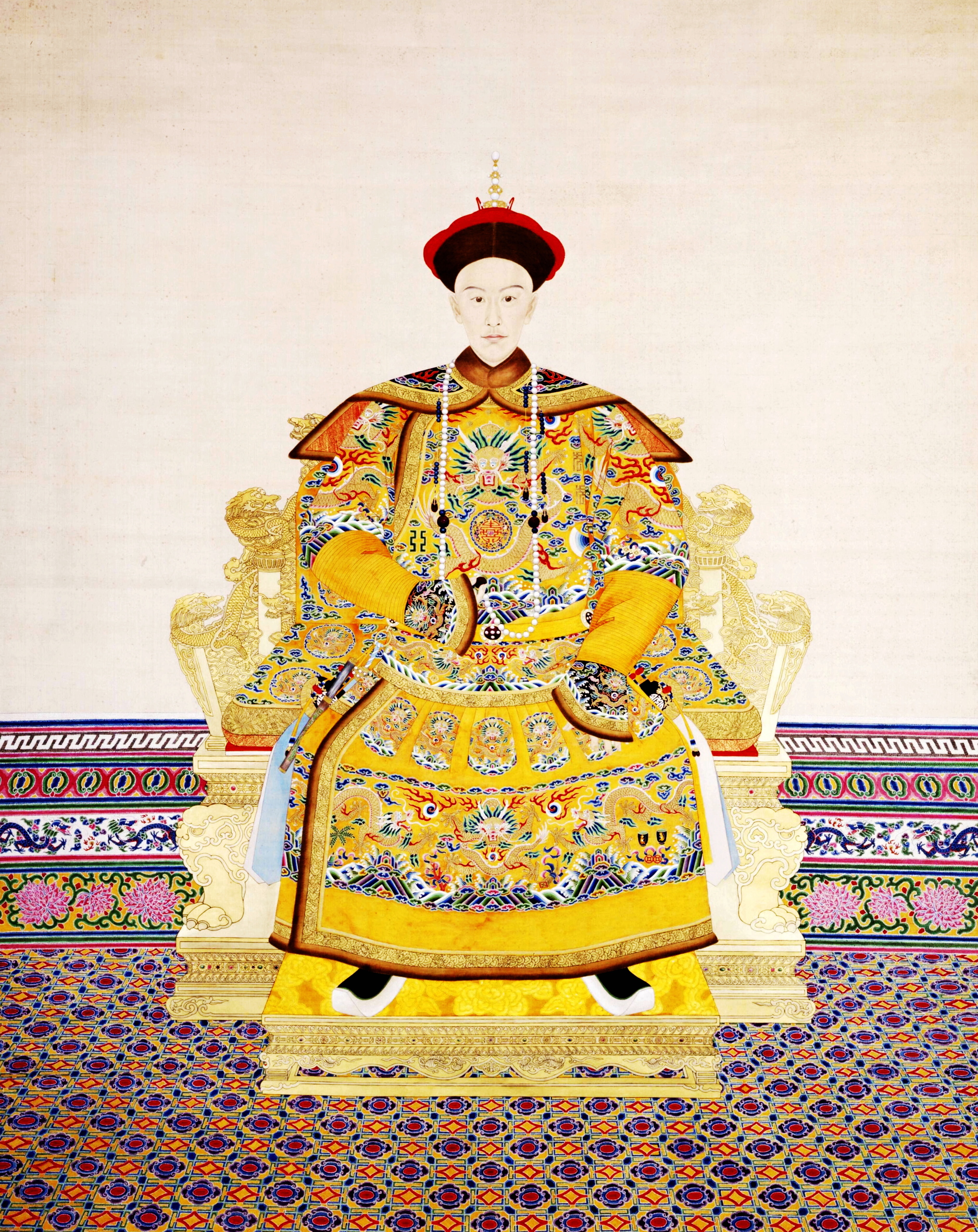 Guangxu Emperor (1871-1908)